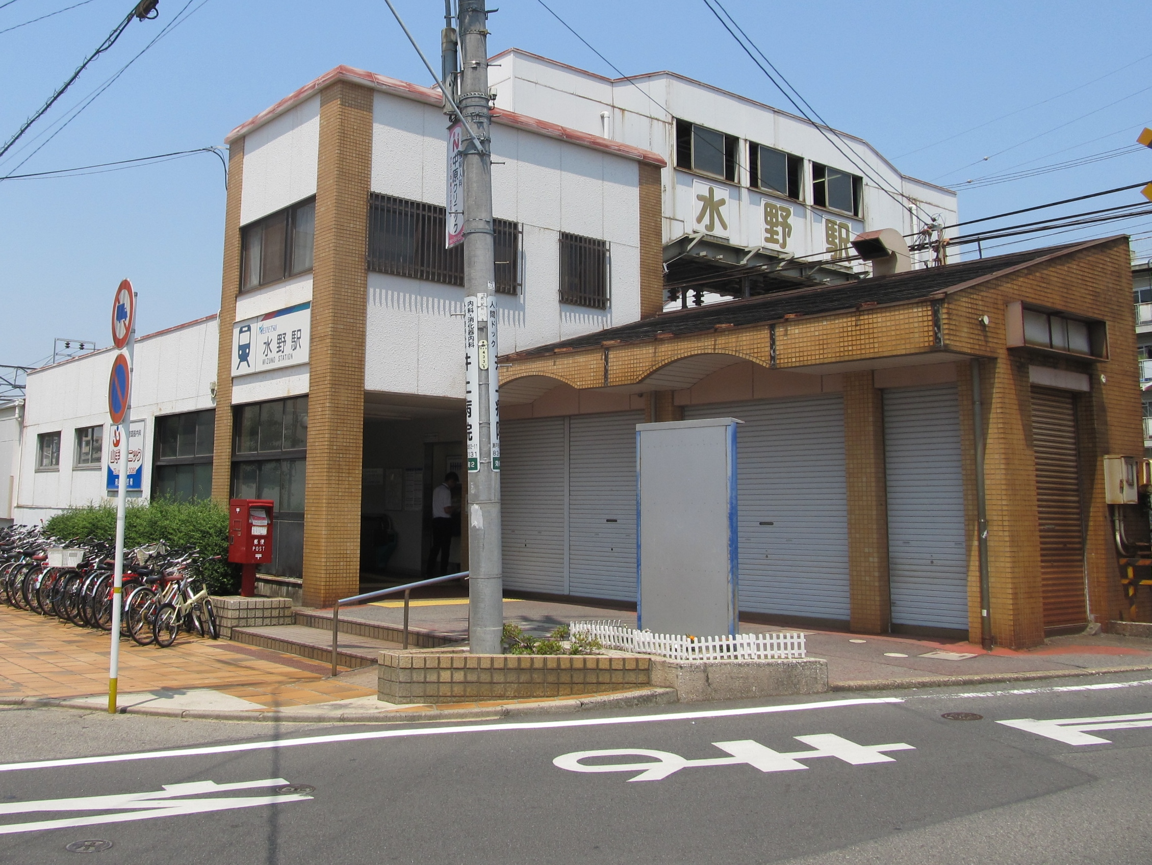 Nagoya Railroad Seto Line Mizuno Station Building